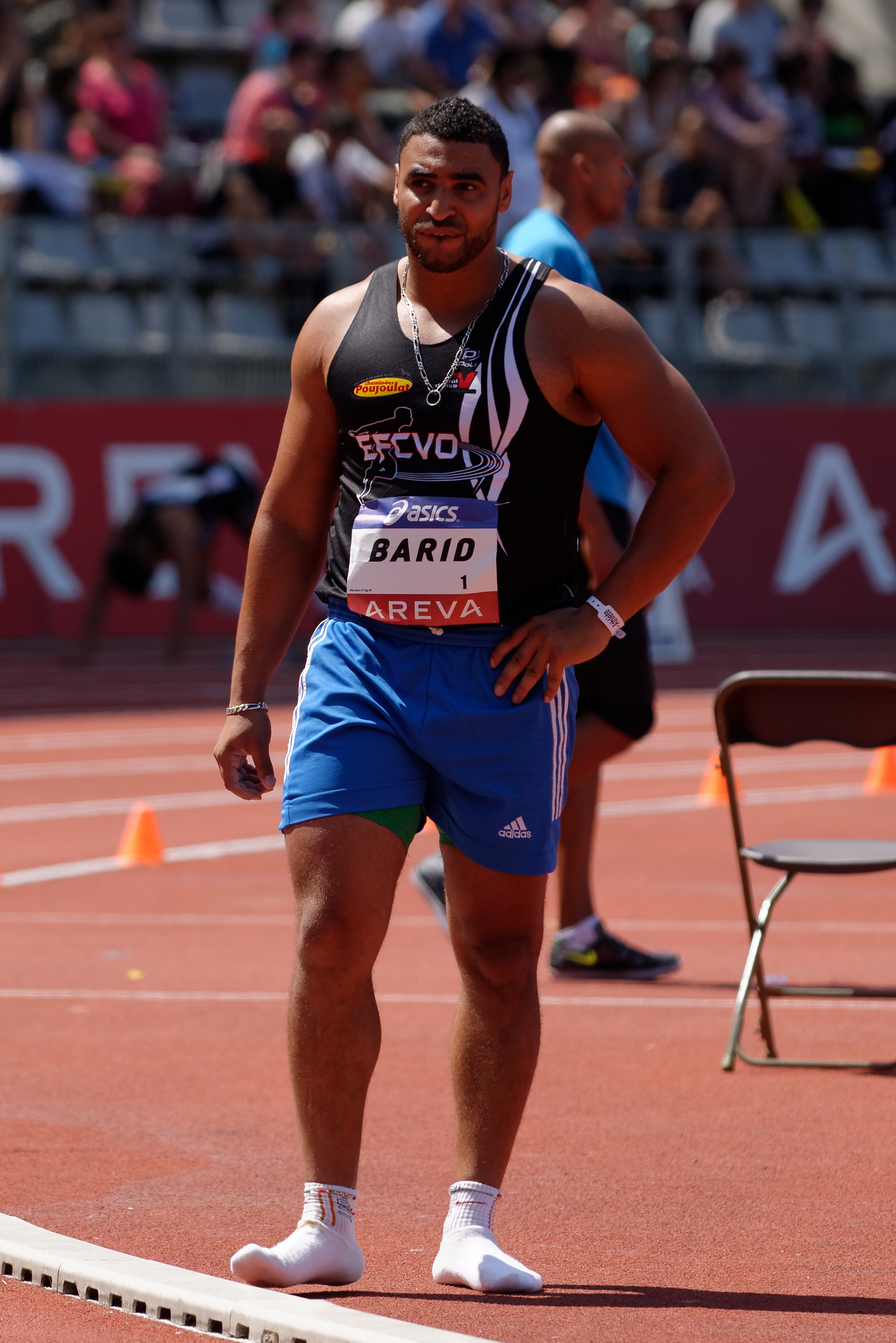 Idriss Barid competes in the men's hammer throw during the French Athletics Championships 2013 at Stade Charléty in Paris, 14 July 2013.